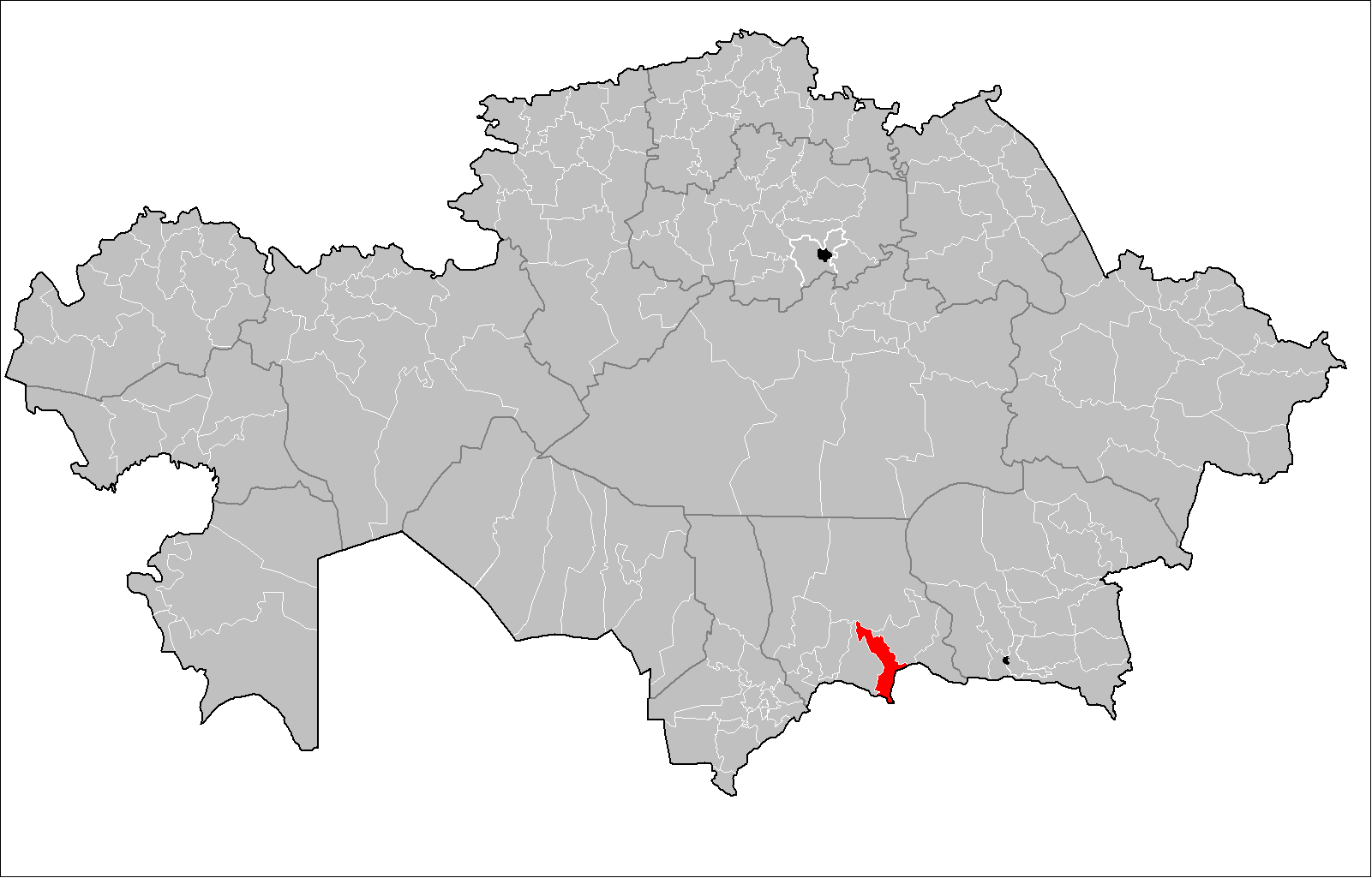 Map of the rayons of Kazakhstan. Created by Rarelibra 16:49, 3 August 2007 (UTC) for public domain use, using MapInfo Professional v8.5 and various mapping resources.